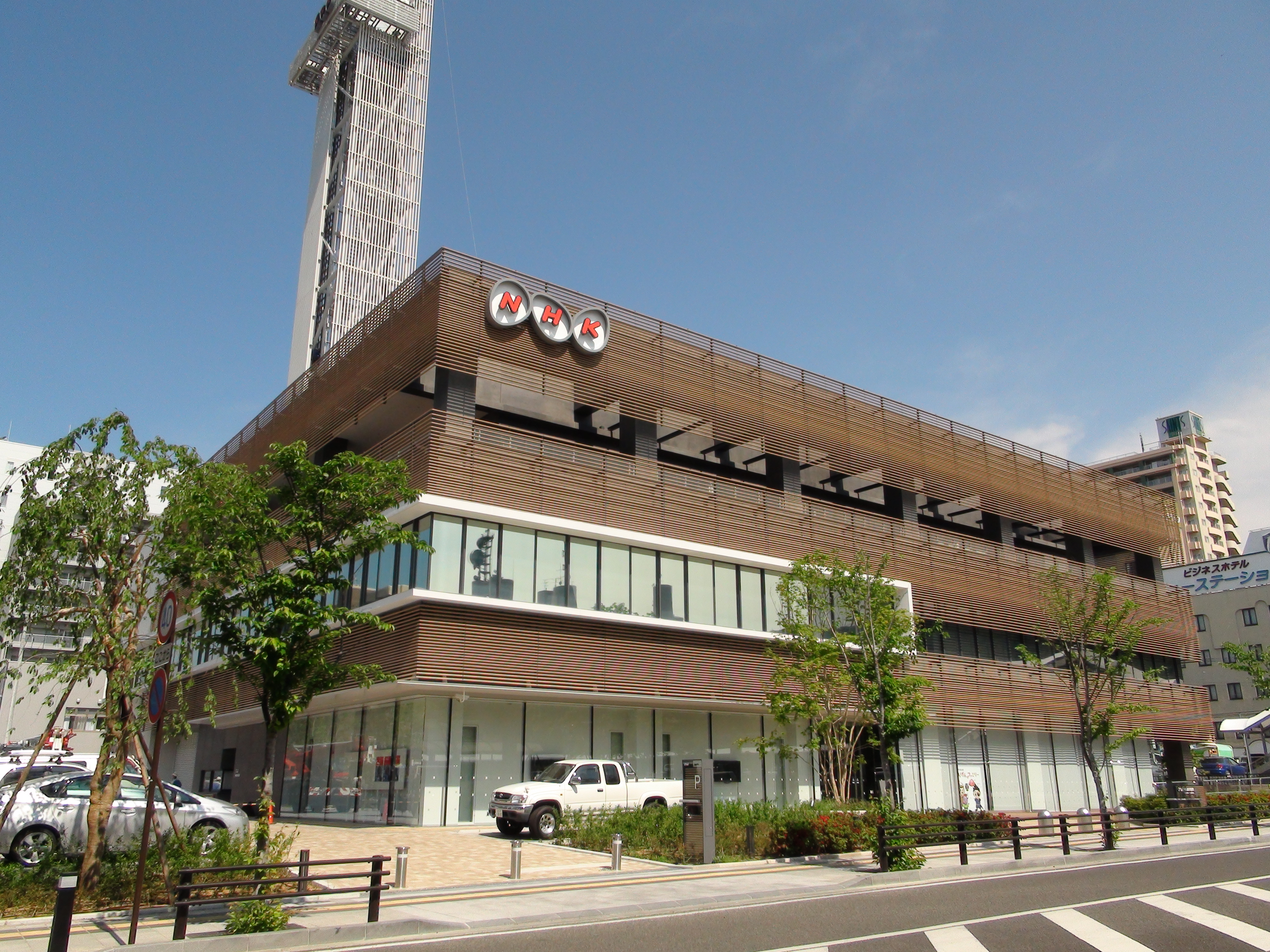 NHK Kofu JOKG. May 2012